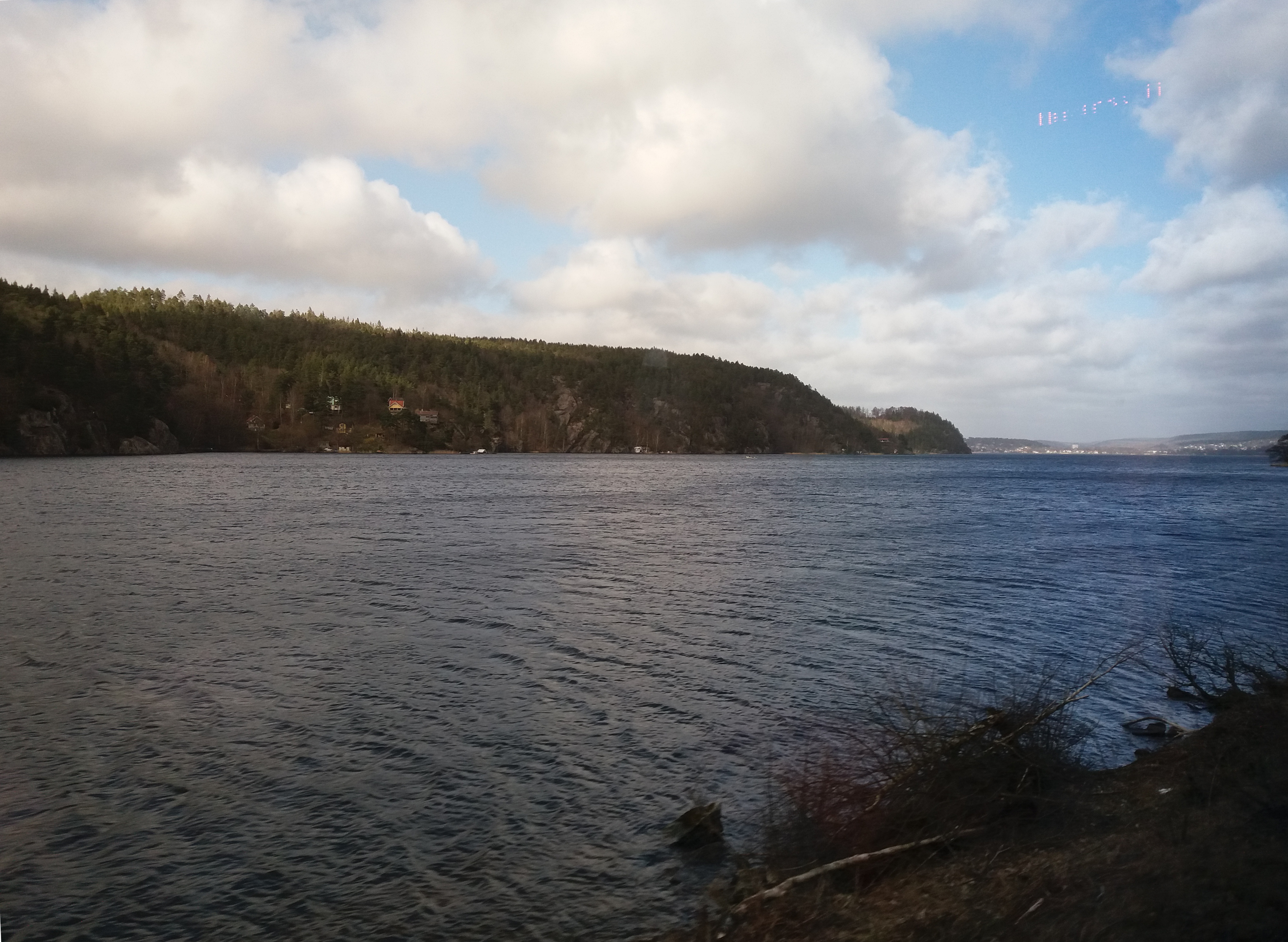 Lake Aspen from the train near Göteborg, Sweden.